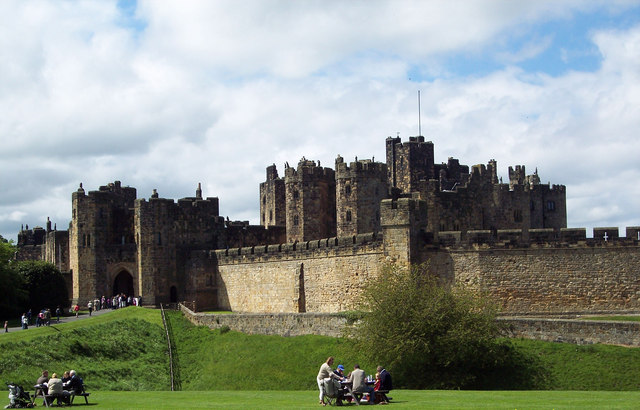 Picnics at Alnwick Castle